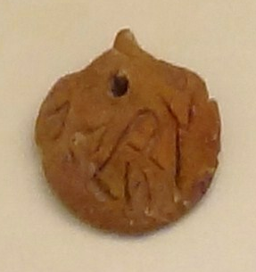 Cretan hieroglyphs (1900-1600 BC) on a clay pendant from Malia or Knossos, Crete. As exhibited at Heraklion Archaeological Museum, Crete, Greece. Based on File:Minoische_Schrifttafeln_01.jpg